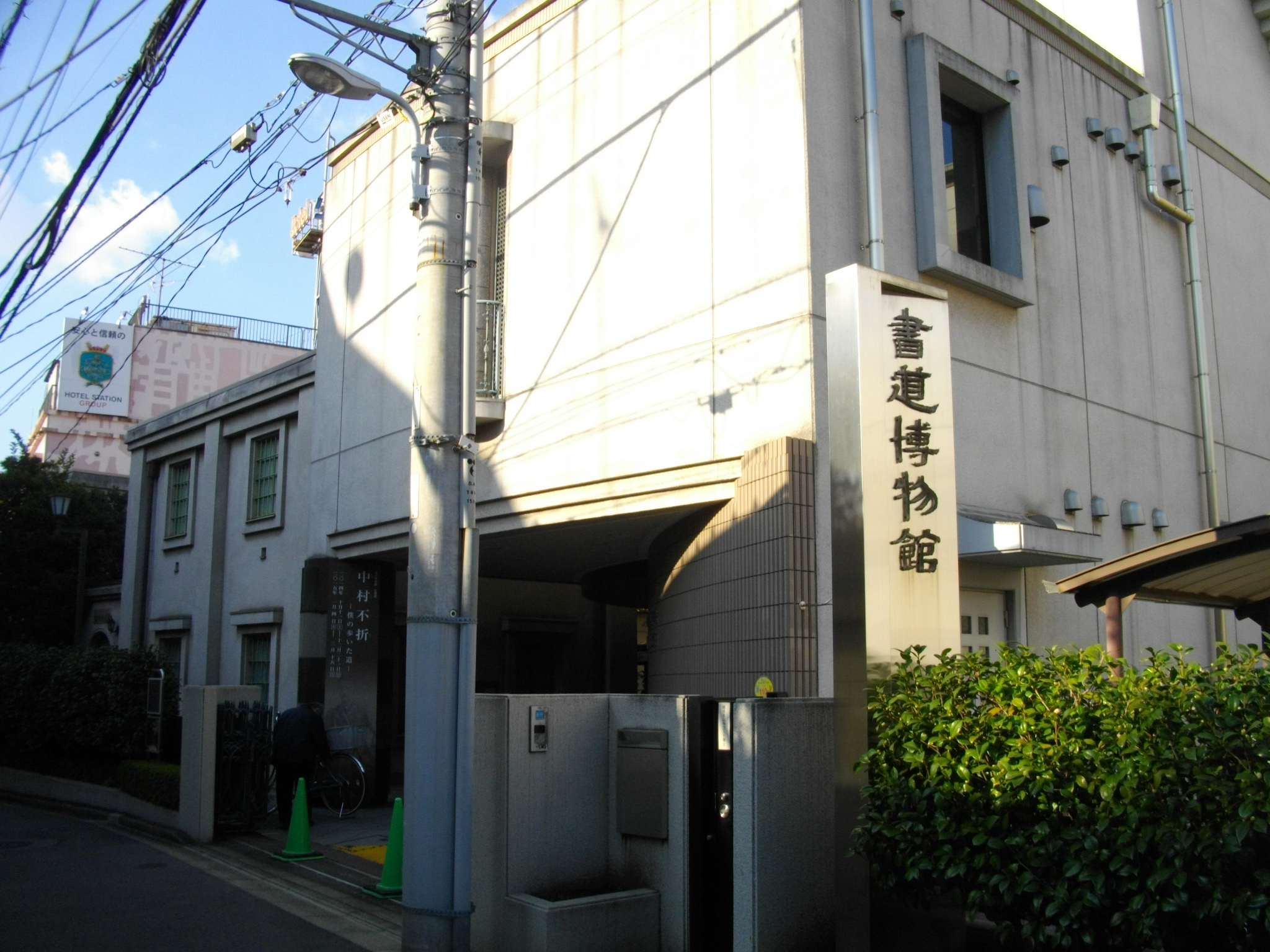 Taito-Ku Calligraphy Museum